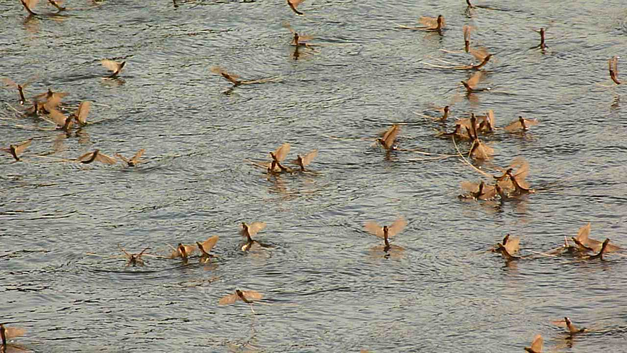 "Tisza blooming", the hatching of several mayflies (Palingenia longicauda?) at once at Tiszainoka. It is when millions of long-tailed mayflies are rising in huge clouds, reproduce, and perish, all in just a few hours.